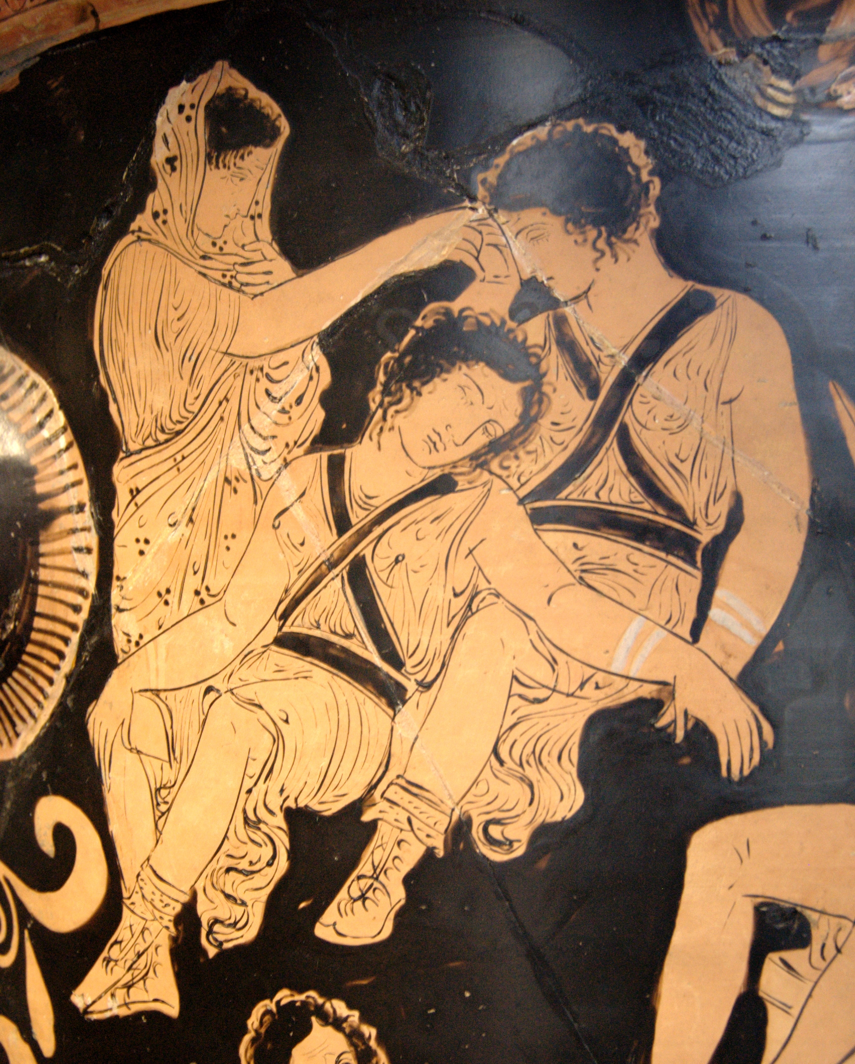 Clytemnestra tries to awake the sleeping Erinyes; Orestes, here unseen, is being purified by Apollo on the right. Detail of the side A from an Apulian red-figure bell-krater, 380–370 BC. From Armento?